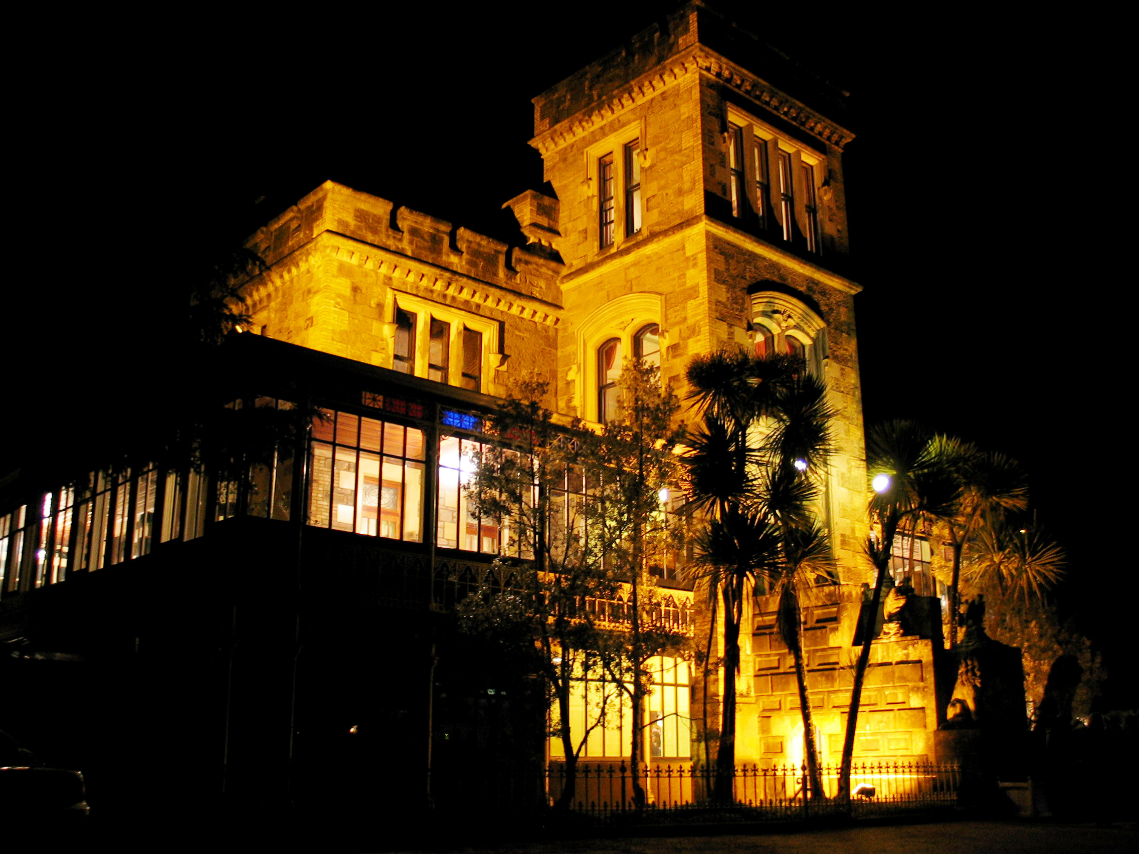 This is the left exterior of Larnach Castle at night, in Dunedin, New Zealand.